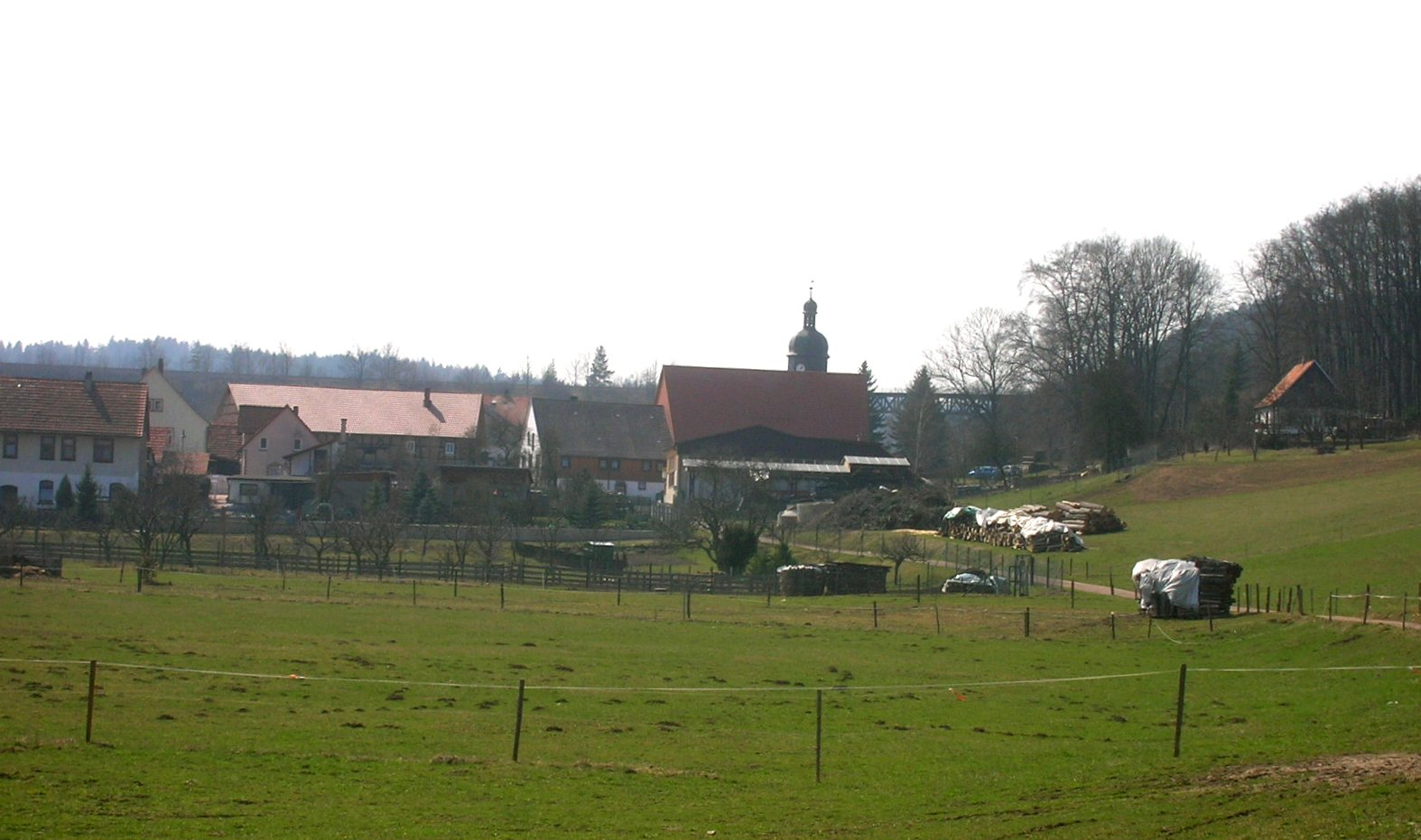 Angelroda in the Ilm-Kreis